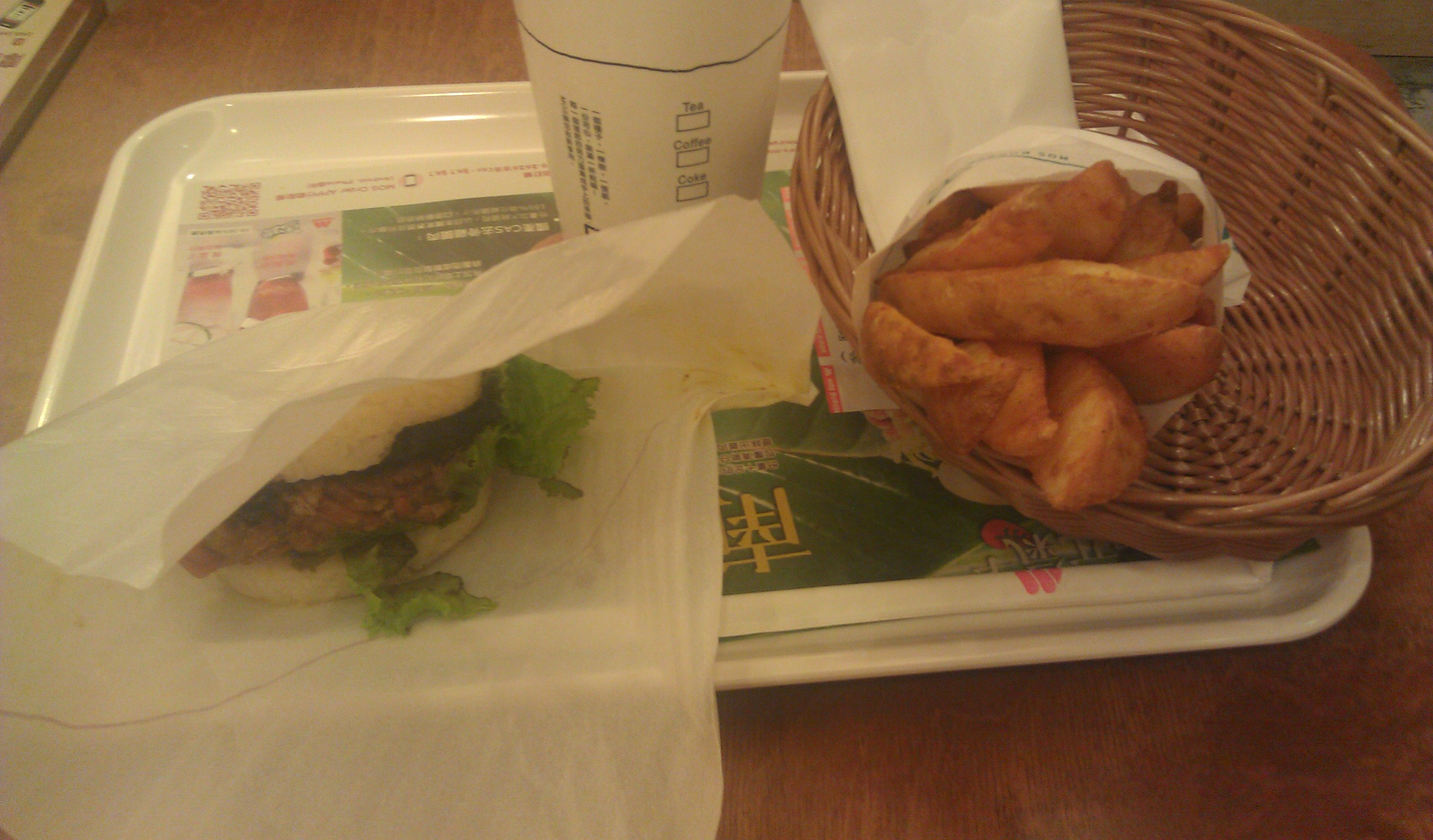 A Mos set meal sold in Taiwan, it contains a vegetarian-edible king oyster mushroom rice burge, fried chips, and a cup of drink.中文（台灣）: 臺灣摩斯套餐，它包含了杏鮑菇珍珠堡、黃金脆薯與一杯飲料